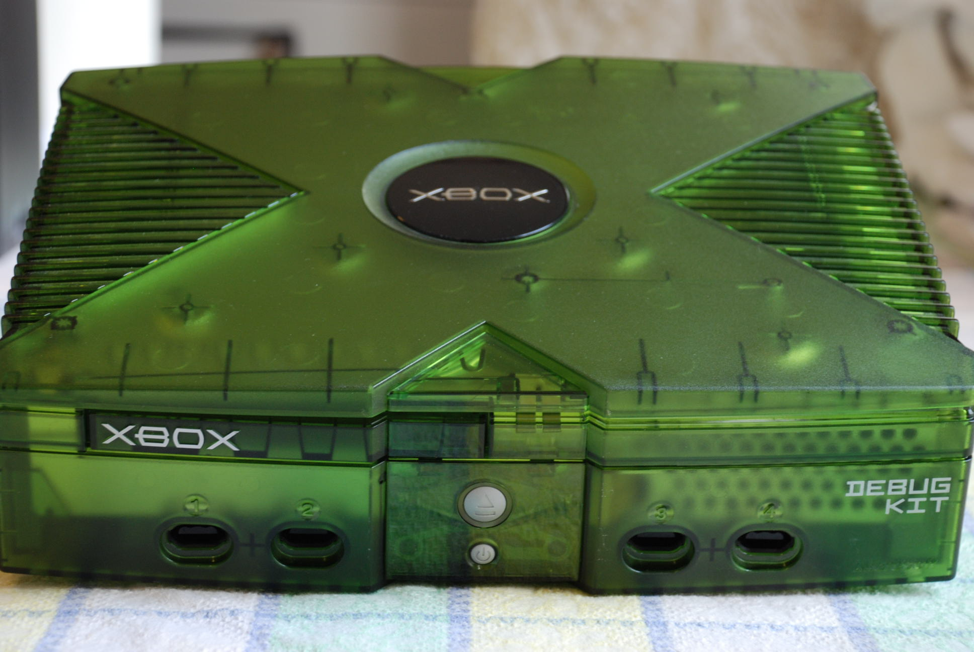 A fine example of the Xbox Debug Kit.